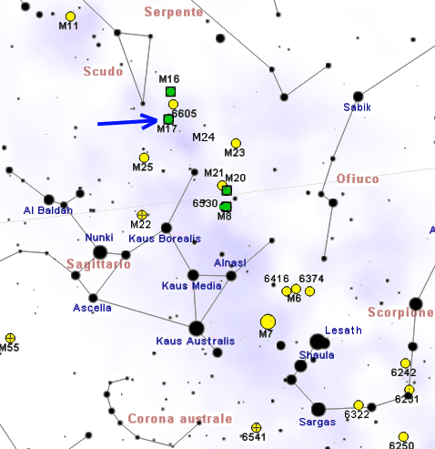 M17